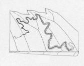 Stigmella_intermedia